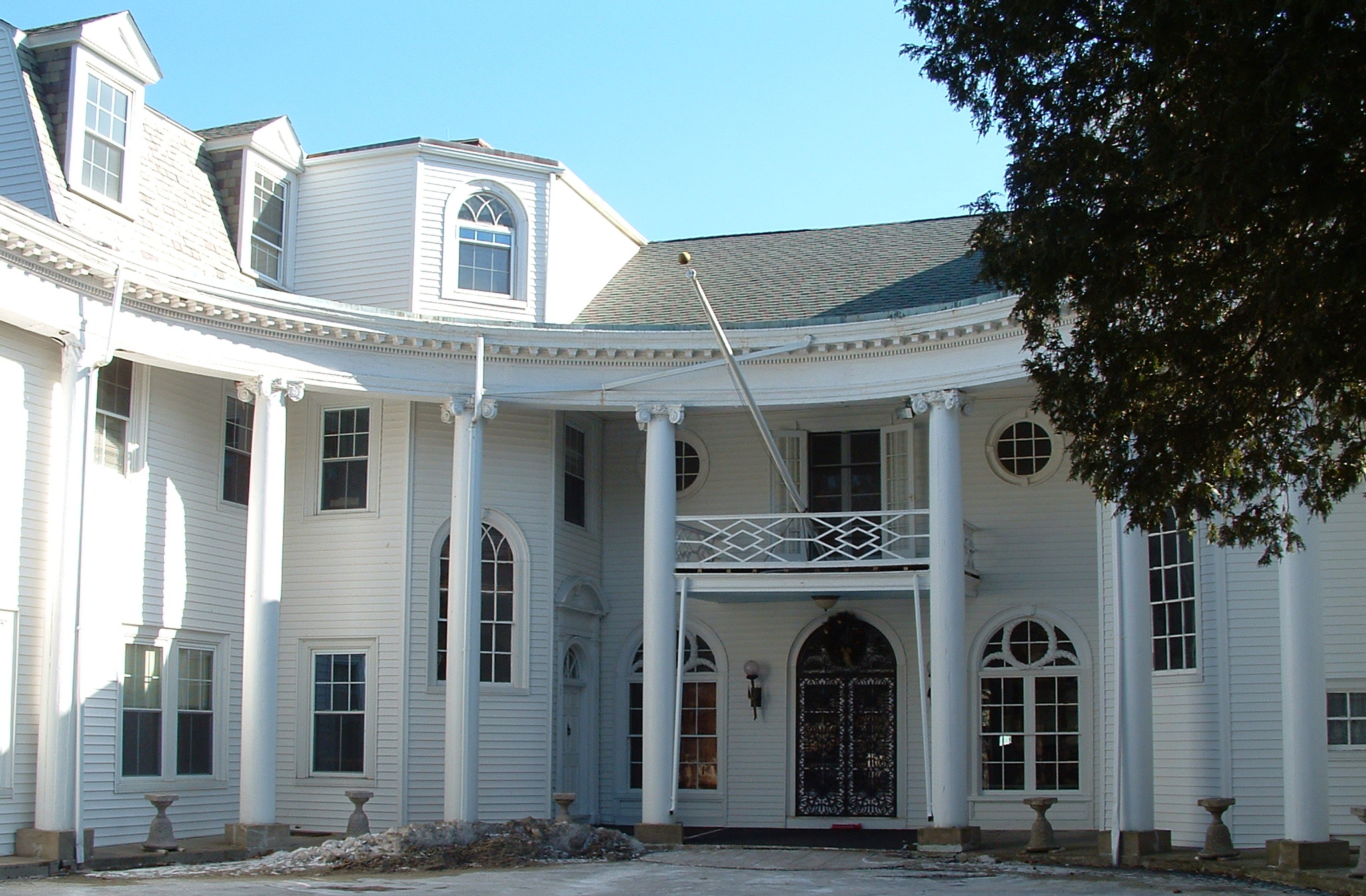 Marian Court College, Swampscott, Massachusetts, entrance